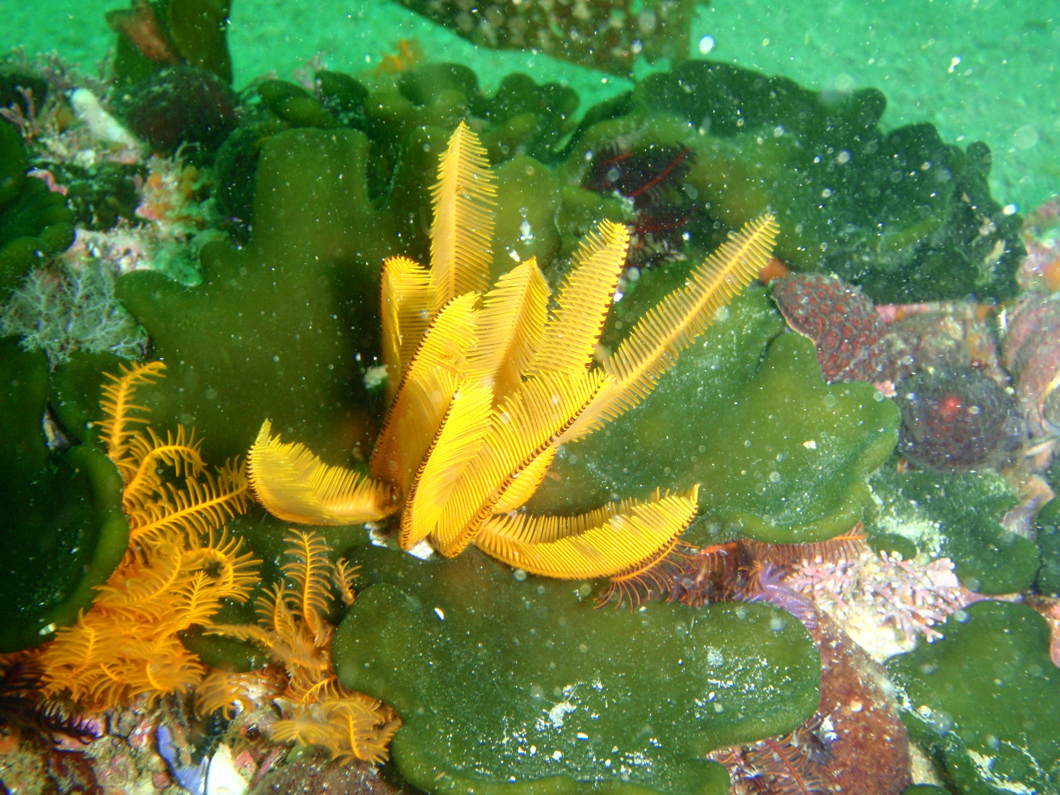 Elegant feather star at Windmill Beach on the Cape Peninsula